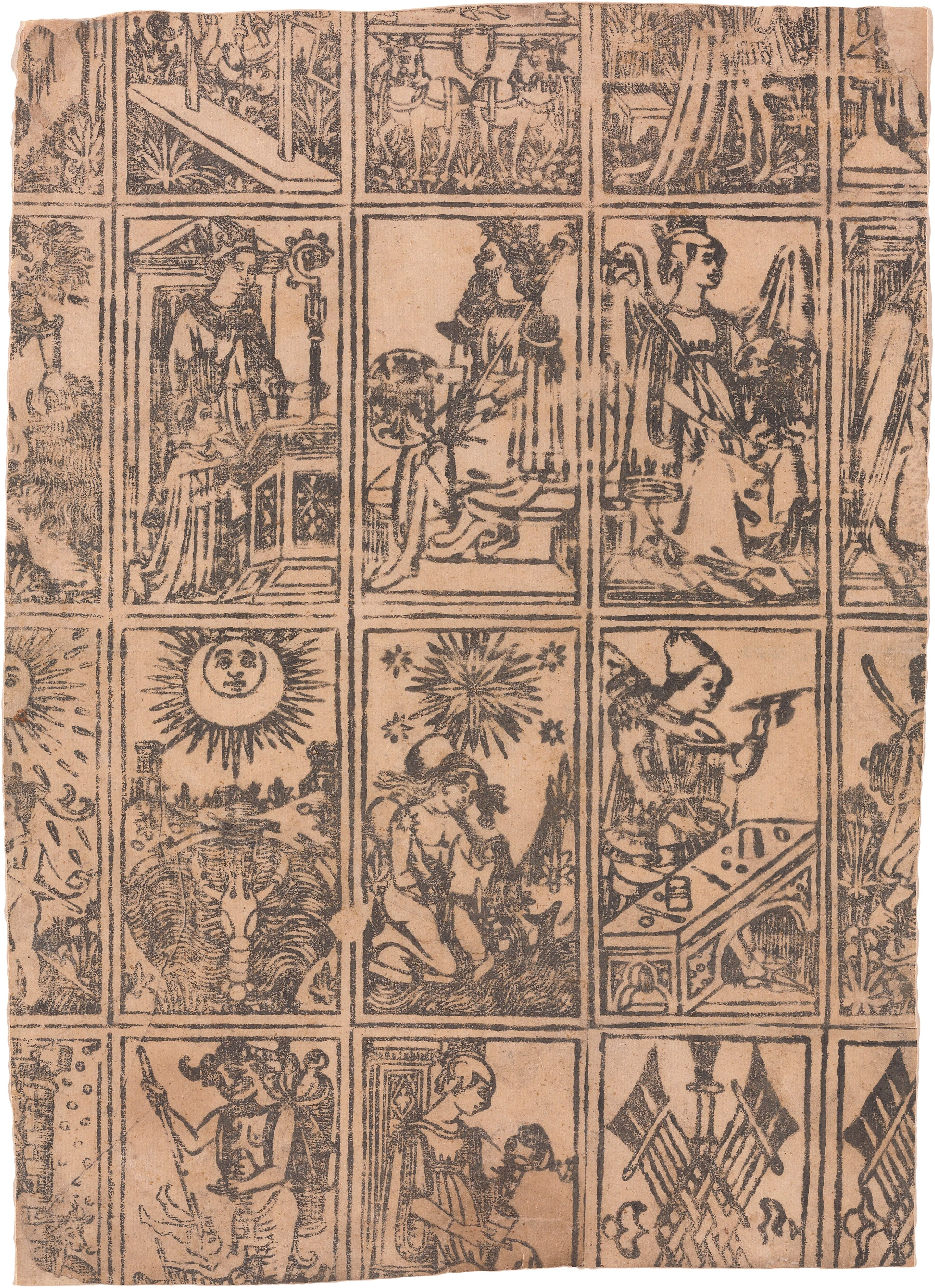 This sheet (304 x 217 mm) shows all or part of twenty playing cards. Two of these are pip cards, the 7 and 8 (or 9) of Batons. These are actually from a separate sheet, cut and mounted to appear as part of this sheet. The other eighteen cards are Tarot trumps. The four missing trumps are the Hermit, Death, Judgment, and the World. Six trumps are entire, including the Bagatto/Magician, the Empress, a female Bishop (presumably in place of the Popess), the Emperor, the Star, and the Moon. The twelve fragmentary trumps include the Fool, the Pope, Love, the Chariot, Justice, Fortune, Fortitude, Temperance, the Devil, Fire/Tower, and the Sun. The style of both pips and trump cards is closely related to the French style of Tarot decks known generically as Tarot de Marseille, but without their characteristic names and numbers. The Tarot de Marseille style originated in Milan, Italy, and this deck appears to be the earliest surviving example of that family of Tarot decks. It is part of the Cary Collection of playing cards, in the Beinecke Library at Yale.